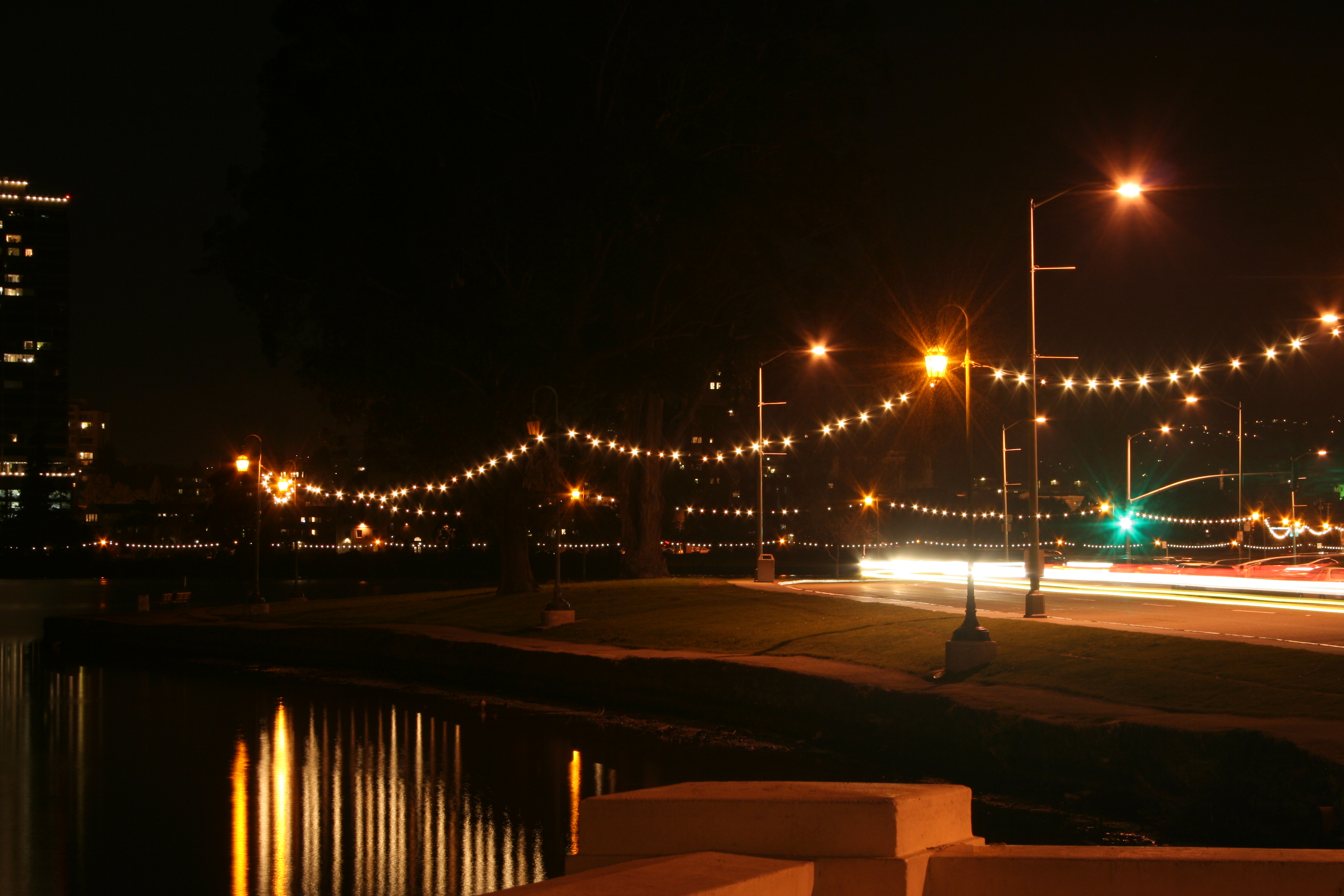 Photographed by and copyright of (c) David Corby (User:Miskatonic, uploader) 2006 Necklace of Lights Lake Merrit Oakland California.